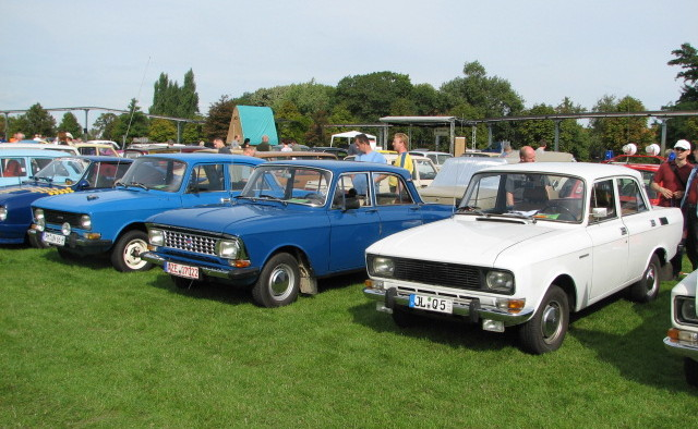 Moskwitch 408/412 (late series) surrounded by two Moskviches 2140